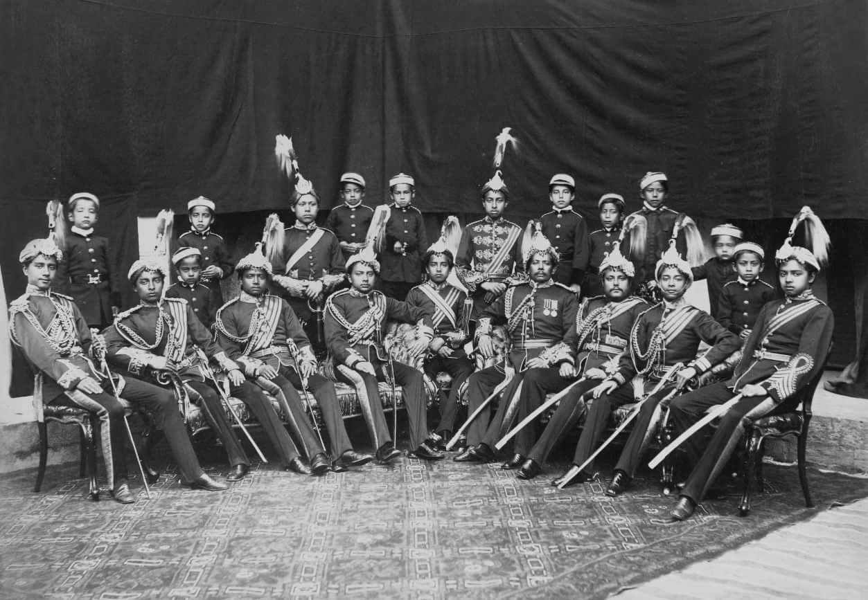 Dhir Shamsher Kunwar (Rana) (1825-1884) and his seventeen sons before his death in 1884. 17 sons of Dhir made up the prominent Shamsher dynasty (शम्शेर खलक) within Ranas by entirely outcasting other Ranas. Bir Shamsher is on left of his father and is the eldest.